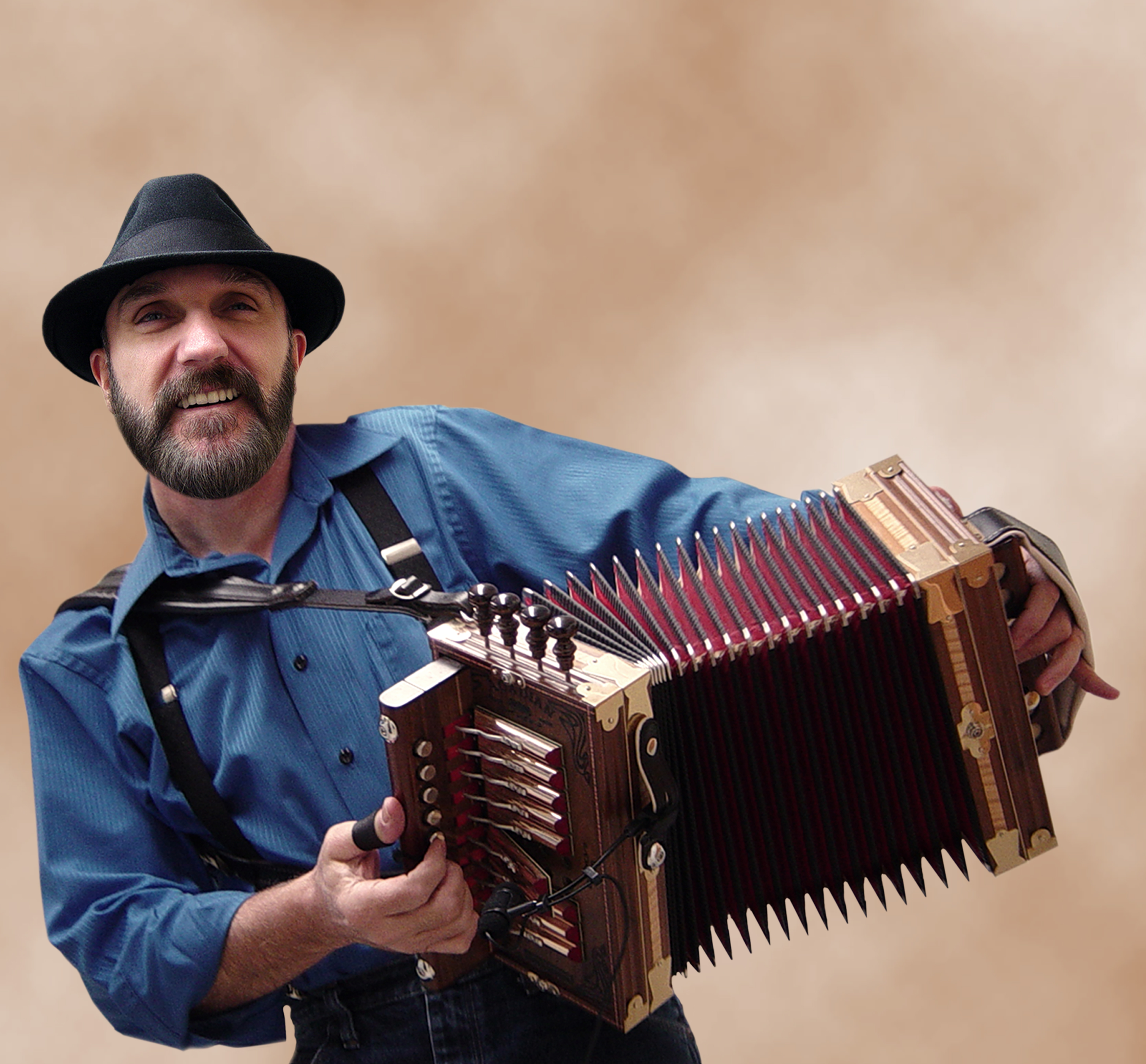 Lee Benoit